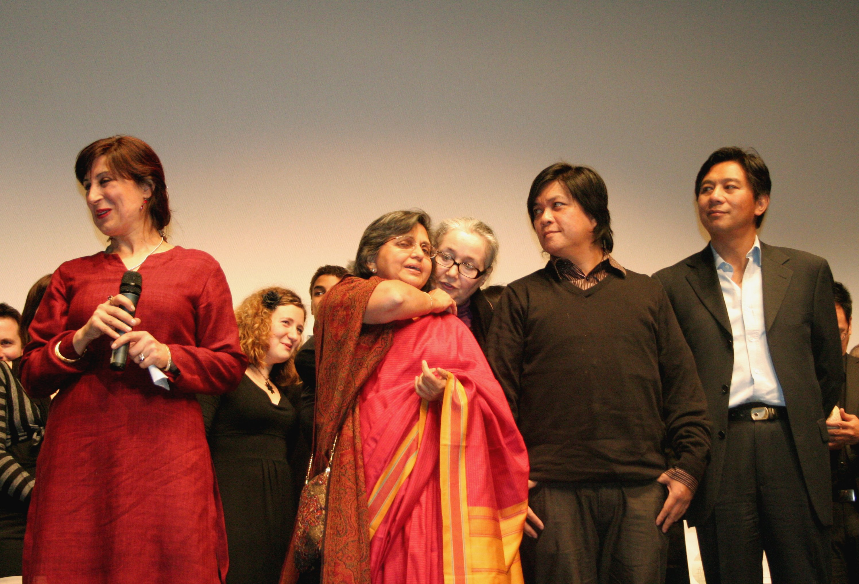 Jury international Festival international des cinémas d'Asie 2009 Fatemeh Motamed-Aria, Indu Shrikent, Jeffrey Jeturian, Li Yang